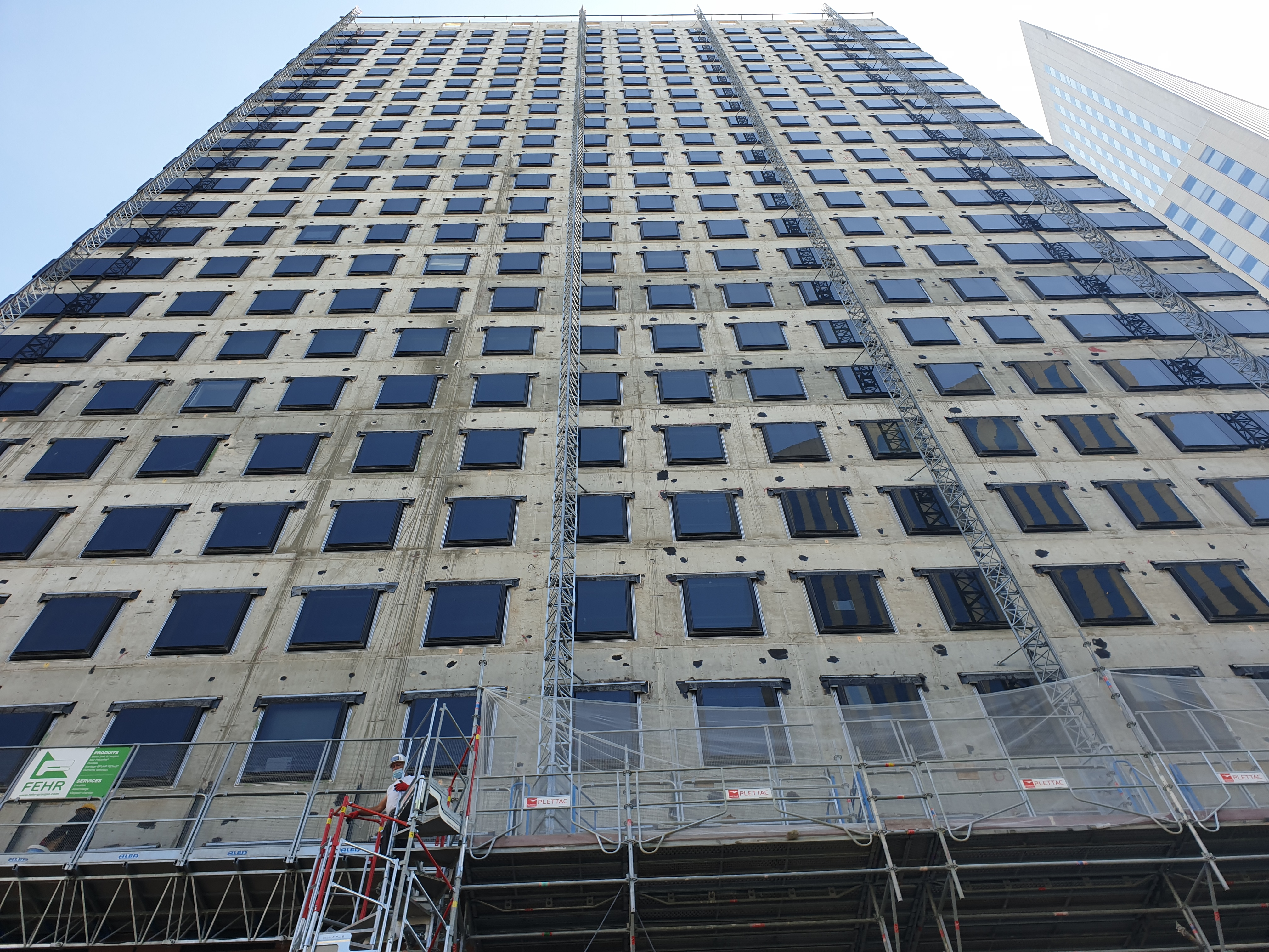 Renovation of the Tour Cèdre